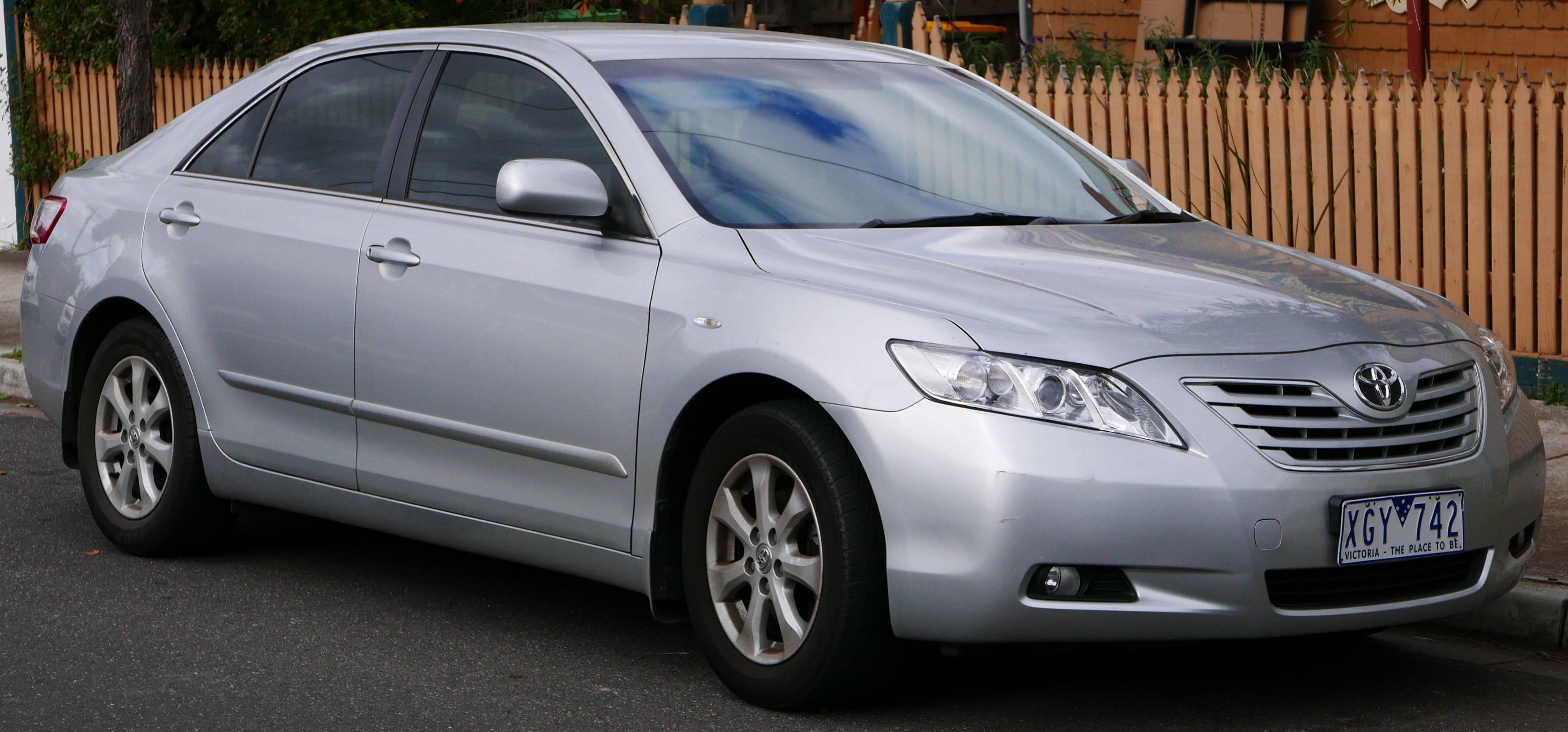 2009 Toyota Camry (ACV40R) Ateva sedan. Photographed in Northcote, Victoria, Australia. Vehicle registration enquiry results Jurisdiction Victoria Registration XGY742 Chassis code 6T153BK400X076836 Engine code 2AZA643402 Compliance date 2009-04 Year of manufacture 2009